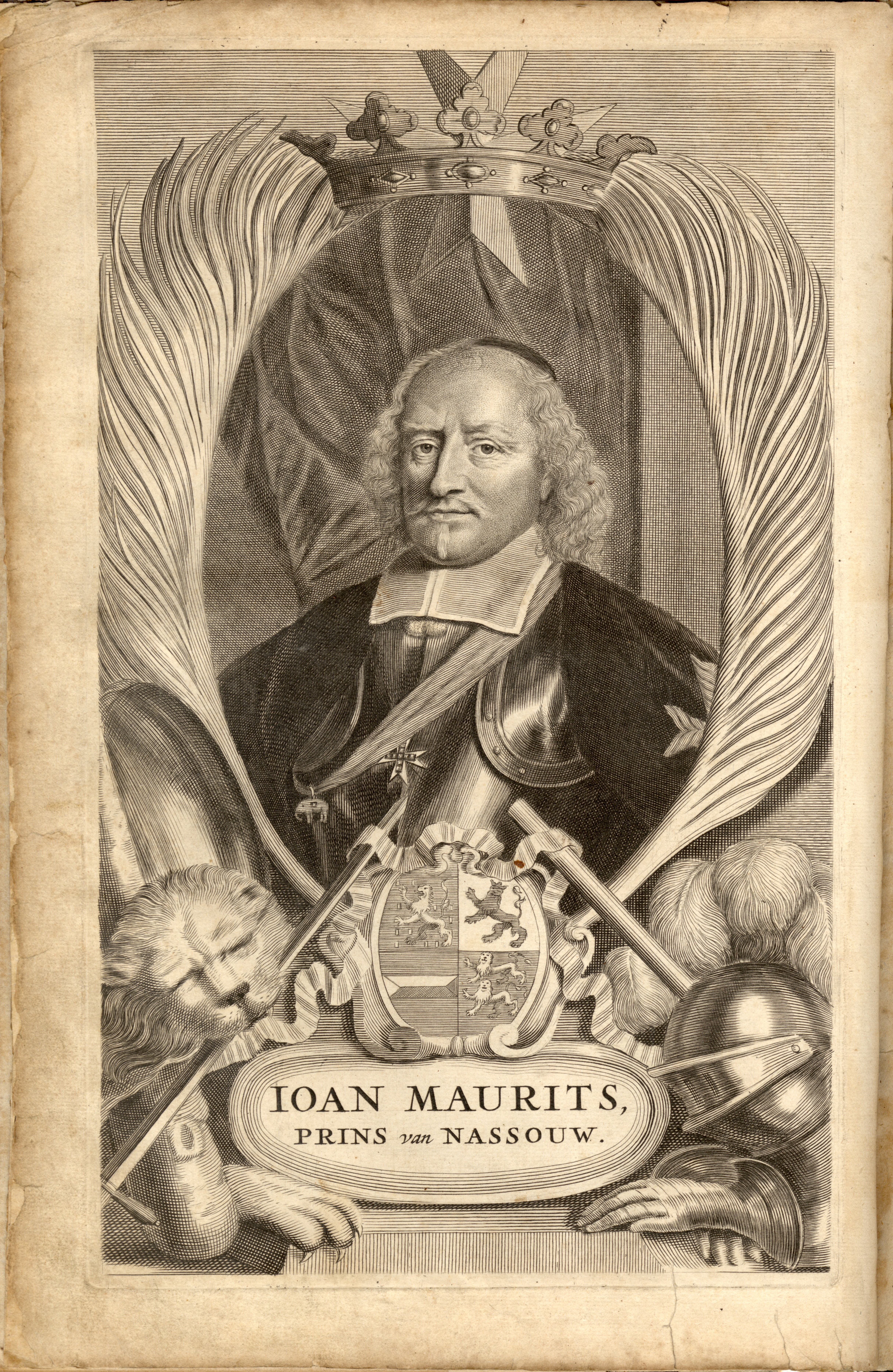 John Maurice, Prince of Nassau, Jacob van Meurs. Engraving published in: Adrianus Montanus, De Nieuwe en Onbekende Weereld (1671)